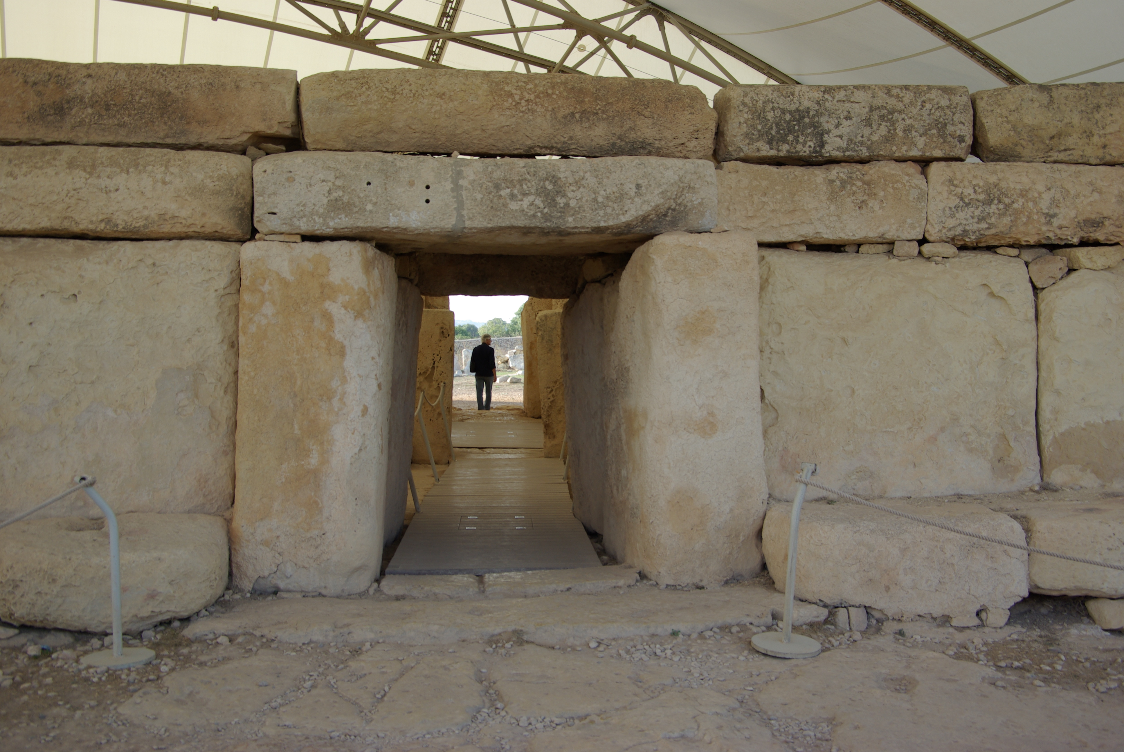 Entrance to the Ġgantija phase temple complex of Hagar Qim, Malta, 3900 BC.